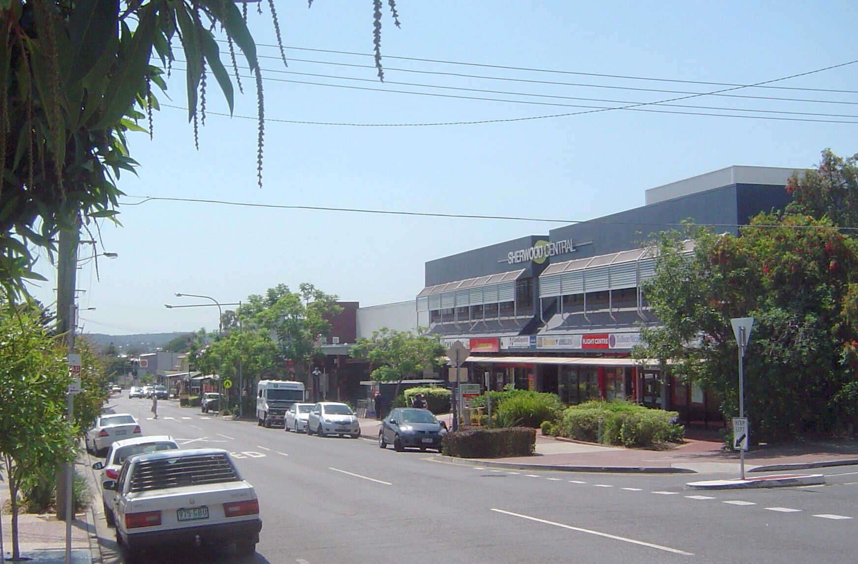 Photograph of Sherwood Road and shops in Sherwood, Brisbane, Queensland, Australia looking east.